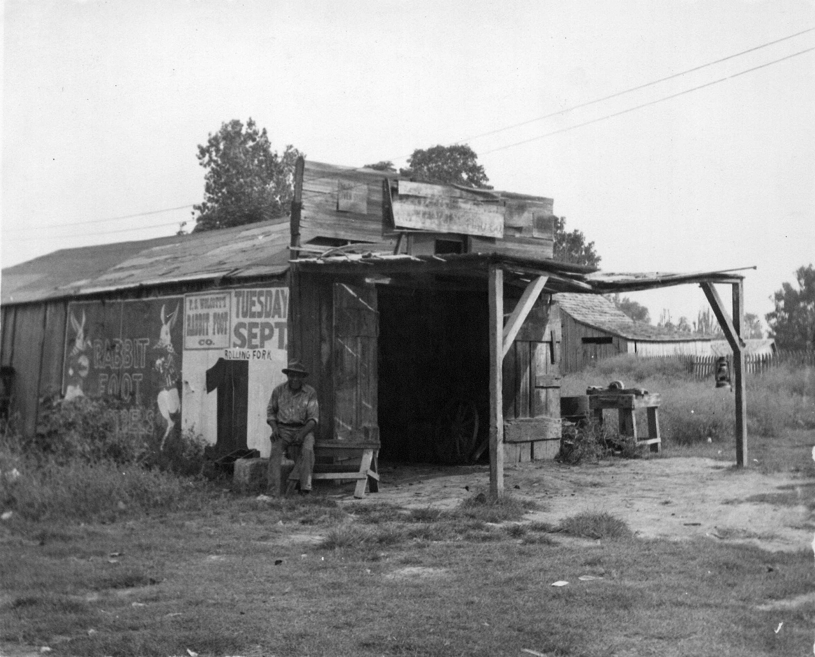 A historic photo of the blacksmith in Mayersville, Mississippi.